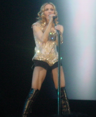 Concert